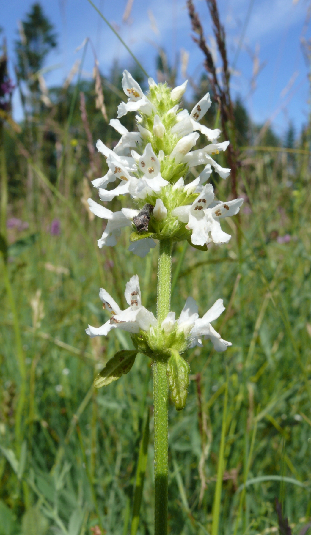 Stachys officinalis, Virngrund, Germany